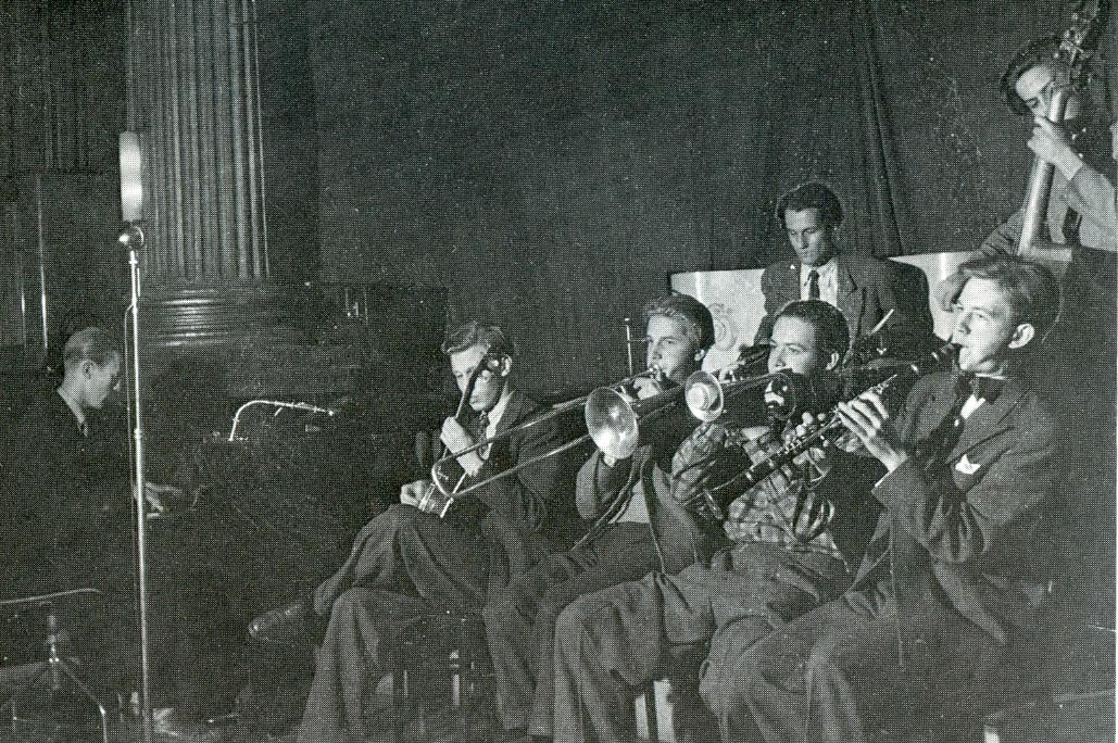 "Grav-Olle" Grafström'sorchestra at Nalen 1947. From left to right: Sune "Sumpen" Borg (piano), Olle Persson (banjo), Sven Lindahl (trombone), Bengt "Buddy" Söderqvist (drums), Olof "Grav-Olle" Grafström (cornet), Stig Ericsson (clarinet) and Leif "Kleppe" Nyberg (string bass).